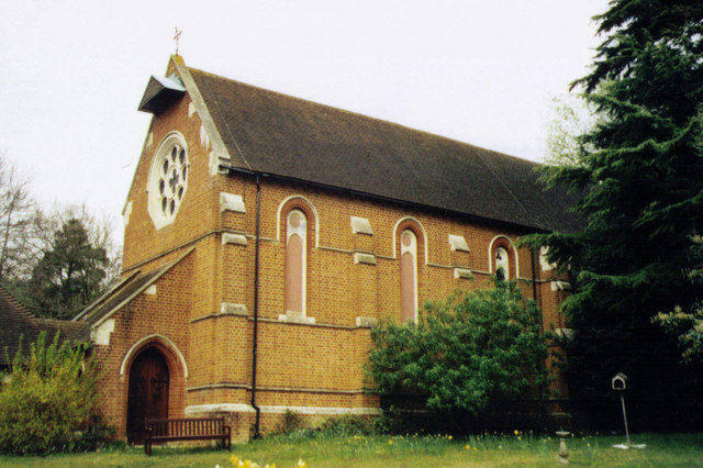 All Saints Old Church, Hawley Built in 1881 and is now in the grounds of Randell House.